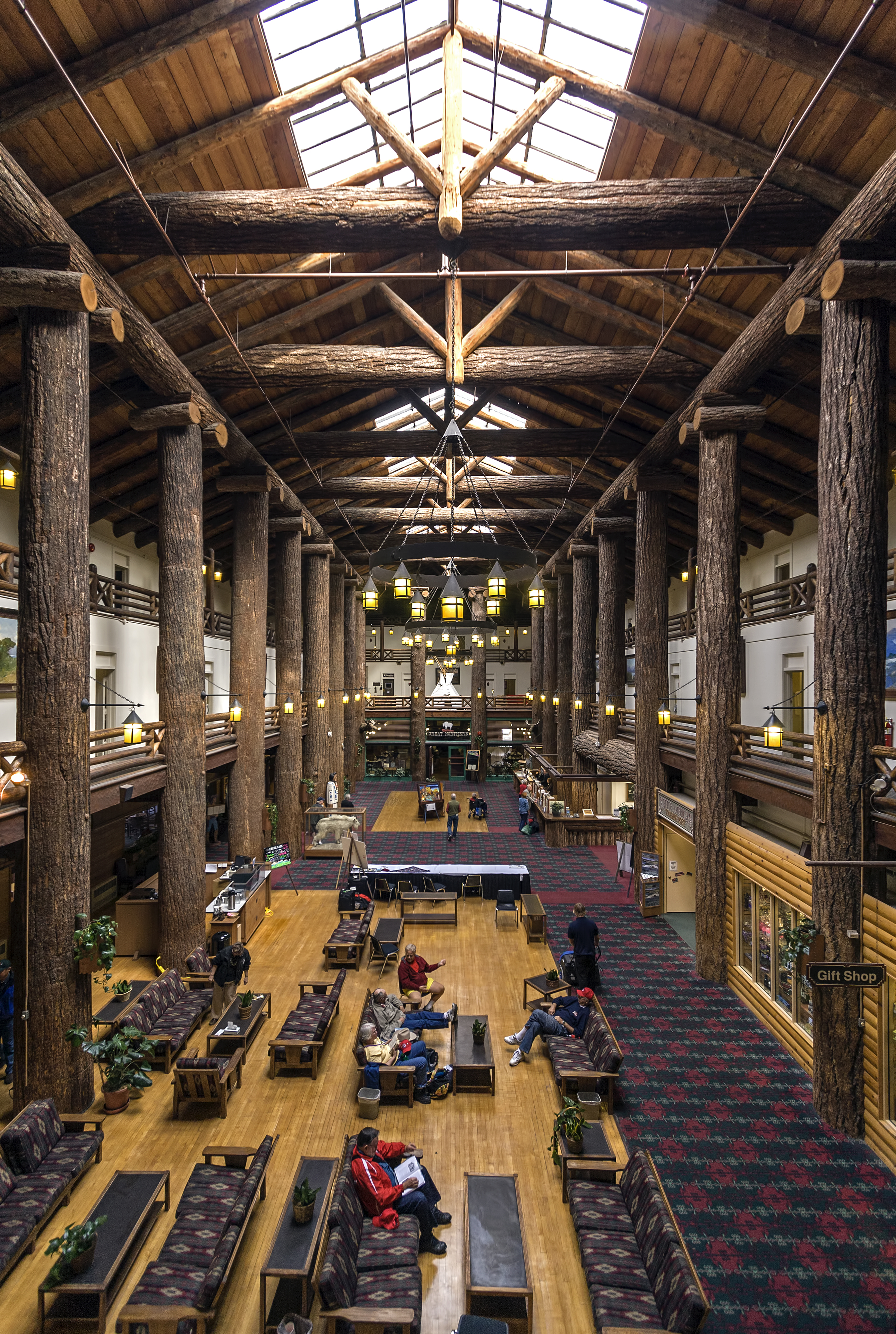 The central lobby of the Glacier Park Lodge, East Glacier, Montana, USA